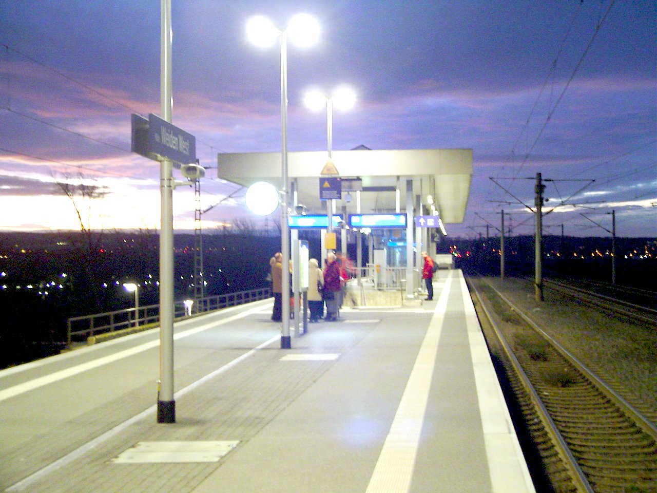 Köln-Weiden West S-Bahn stop in Cologne, Germany